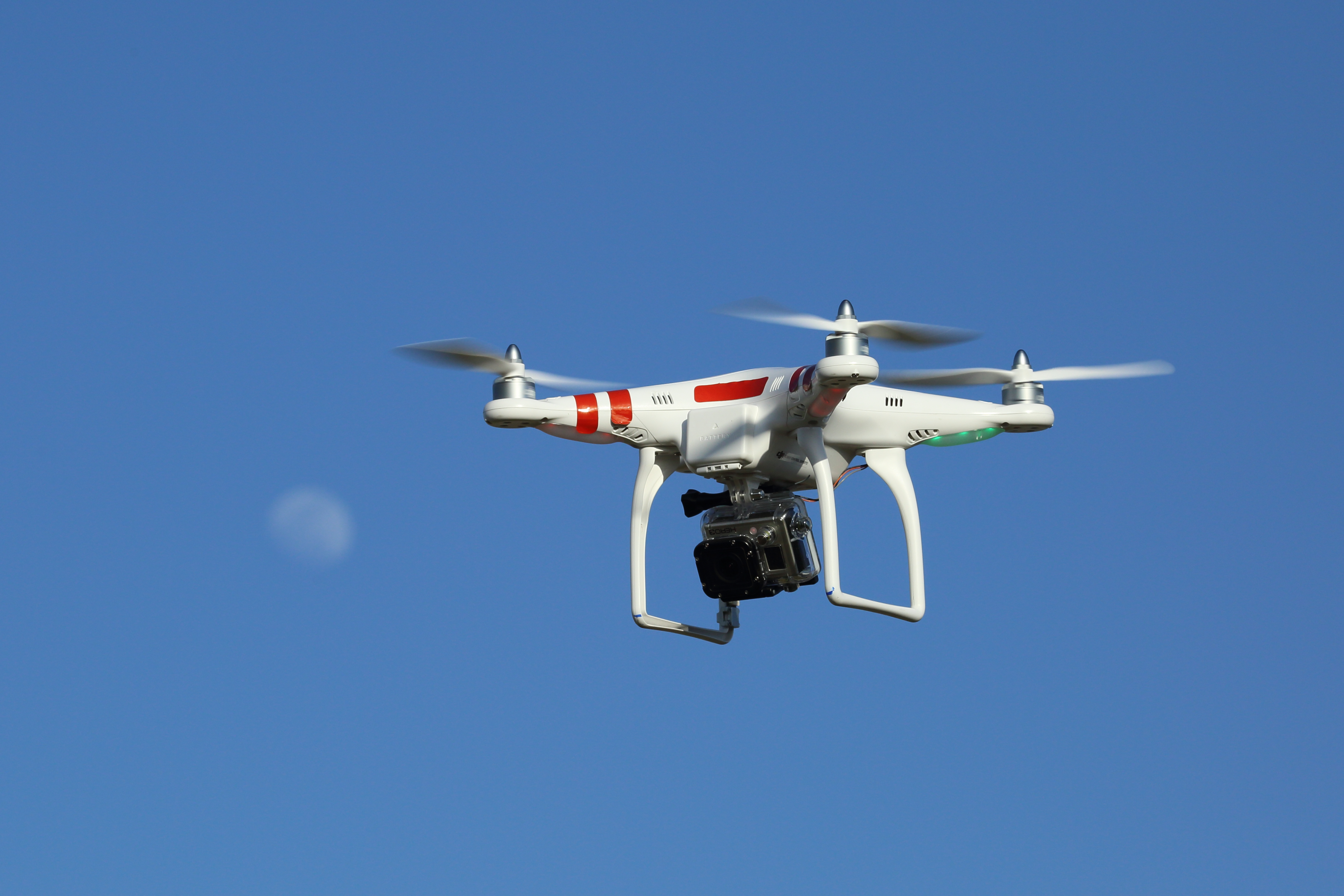 This DJI Phantom drone has a Go Pro camera mounted underneath and can go anywhere. The pilot was practicing flying in the high wind. I asked him to get the moon in perspective and he could put it wherever I asked. You can buy one yourself off the Internet. Amazing machine, but some concerns with that camera too.